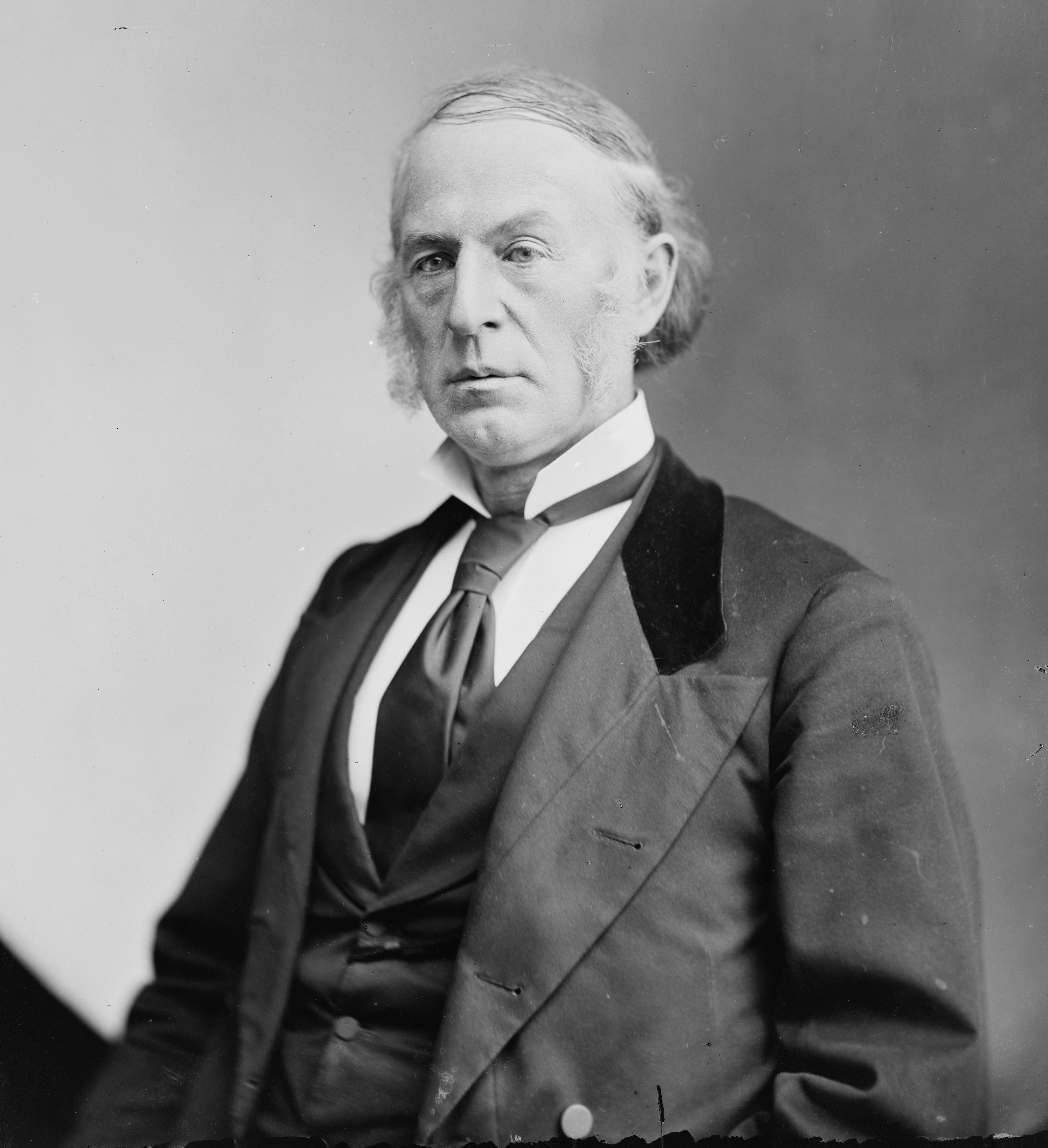 James W. Patterson. Library of Congress description: "Patterson, Hon. J.W. of N.H.".